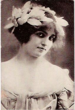 Alice Joyce from Kalem postcard